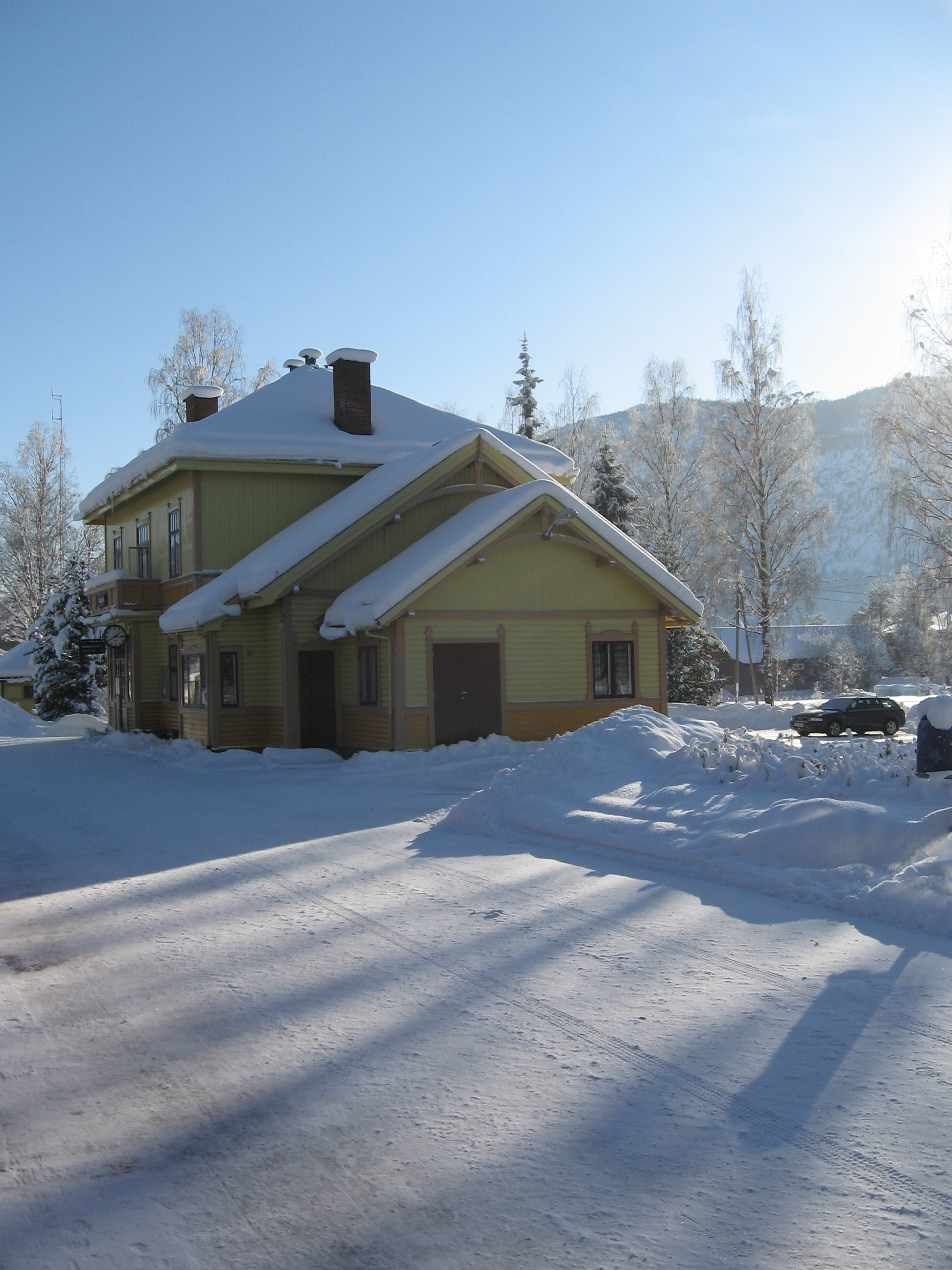 Nesbyen railway station on the Bergensbanen, Norway